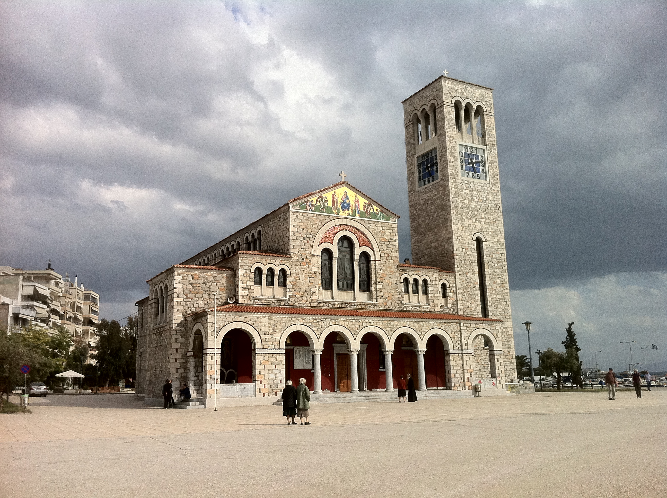 Ss. Constantine & Helen Orthodox Church